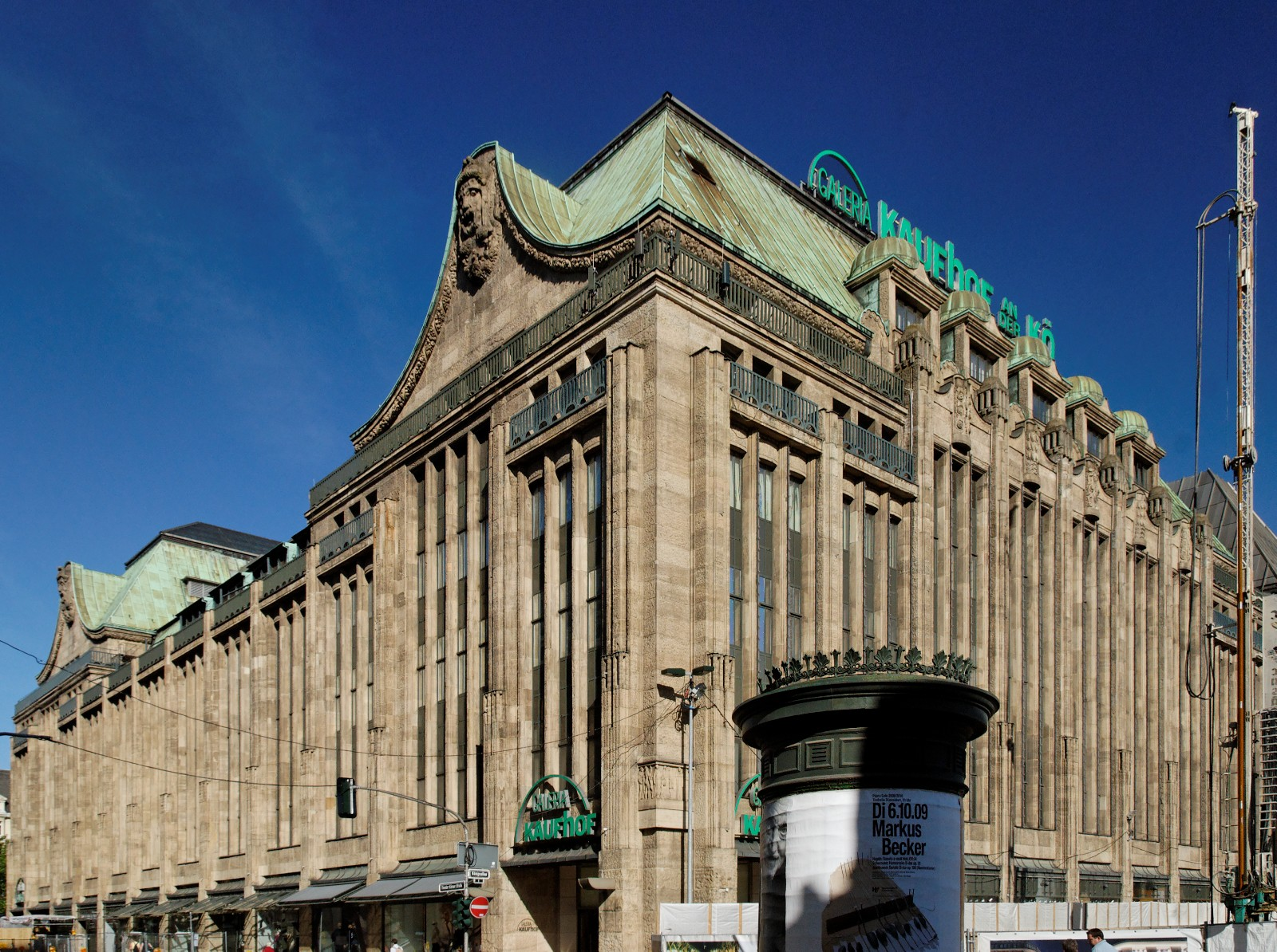 Kaufhof, Königsallee 1 in Düsseldorf-Stadtmitte, Germany This is a photograph of an architectural monument.